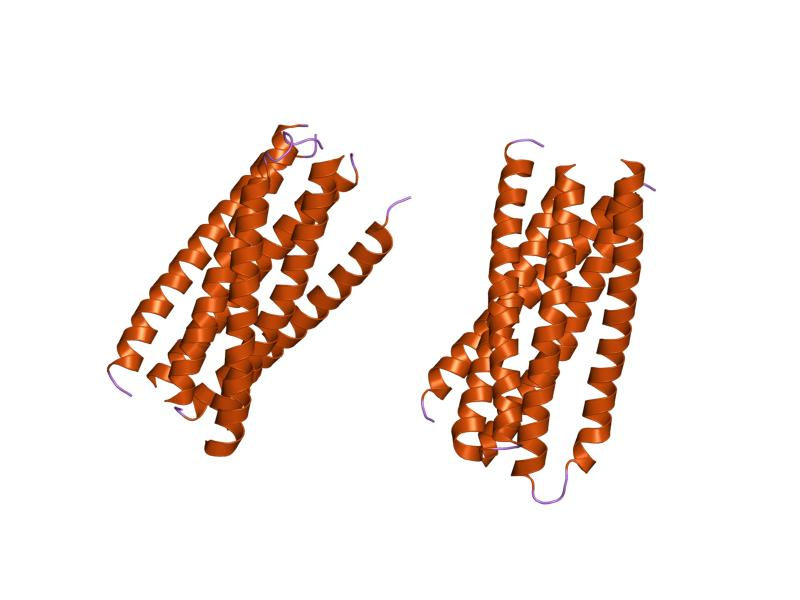 Cartoon representation of the molecular structure of protein registered with 1f23 code.